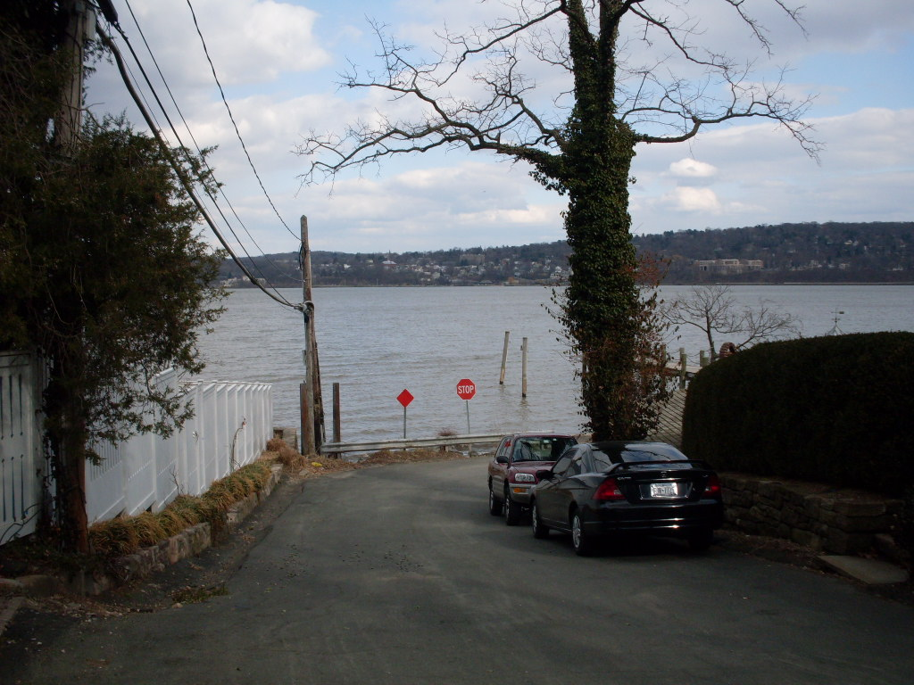 Site of original ferry landing on Hudson River above New York City known as Sneden's landing.